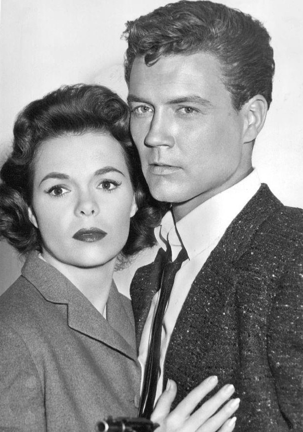 Photo of Roger Smith as Jeff Spencer and guest star Nancy Gates from the television program 77 Sunset Strip.